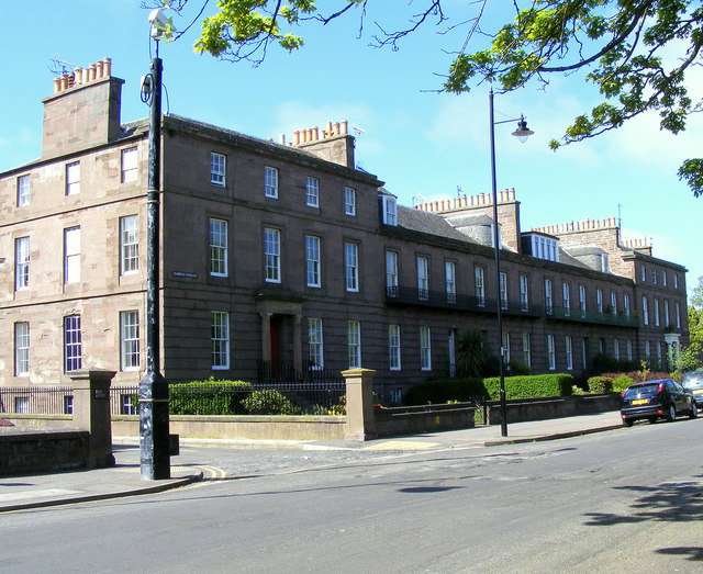 Panmure Terrace